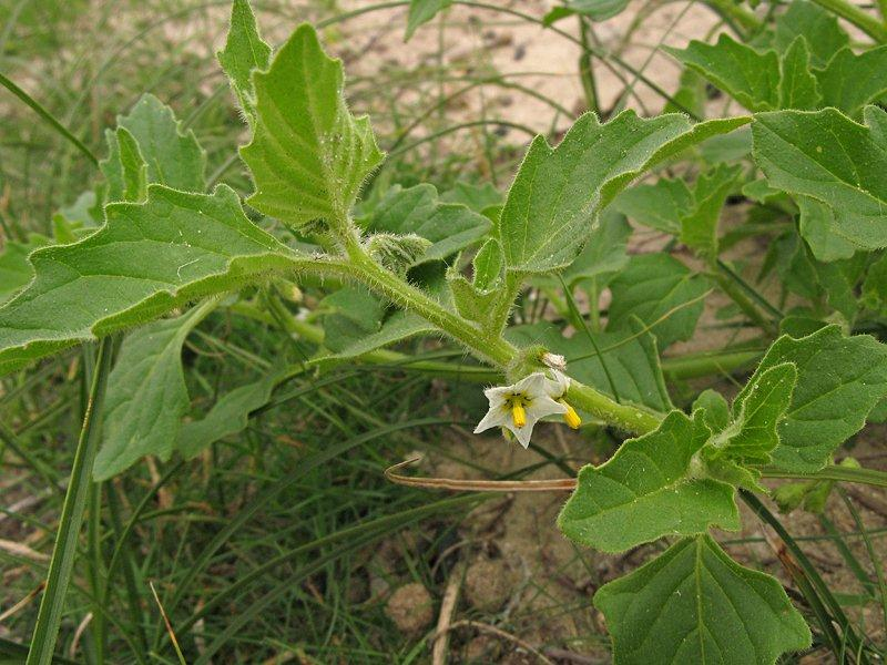 Solanum physalifolium var. nitidibaccatum, Knokke, nature reserve Zwin, ruderal sandy area, August 2010, W. Vercruysse.